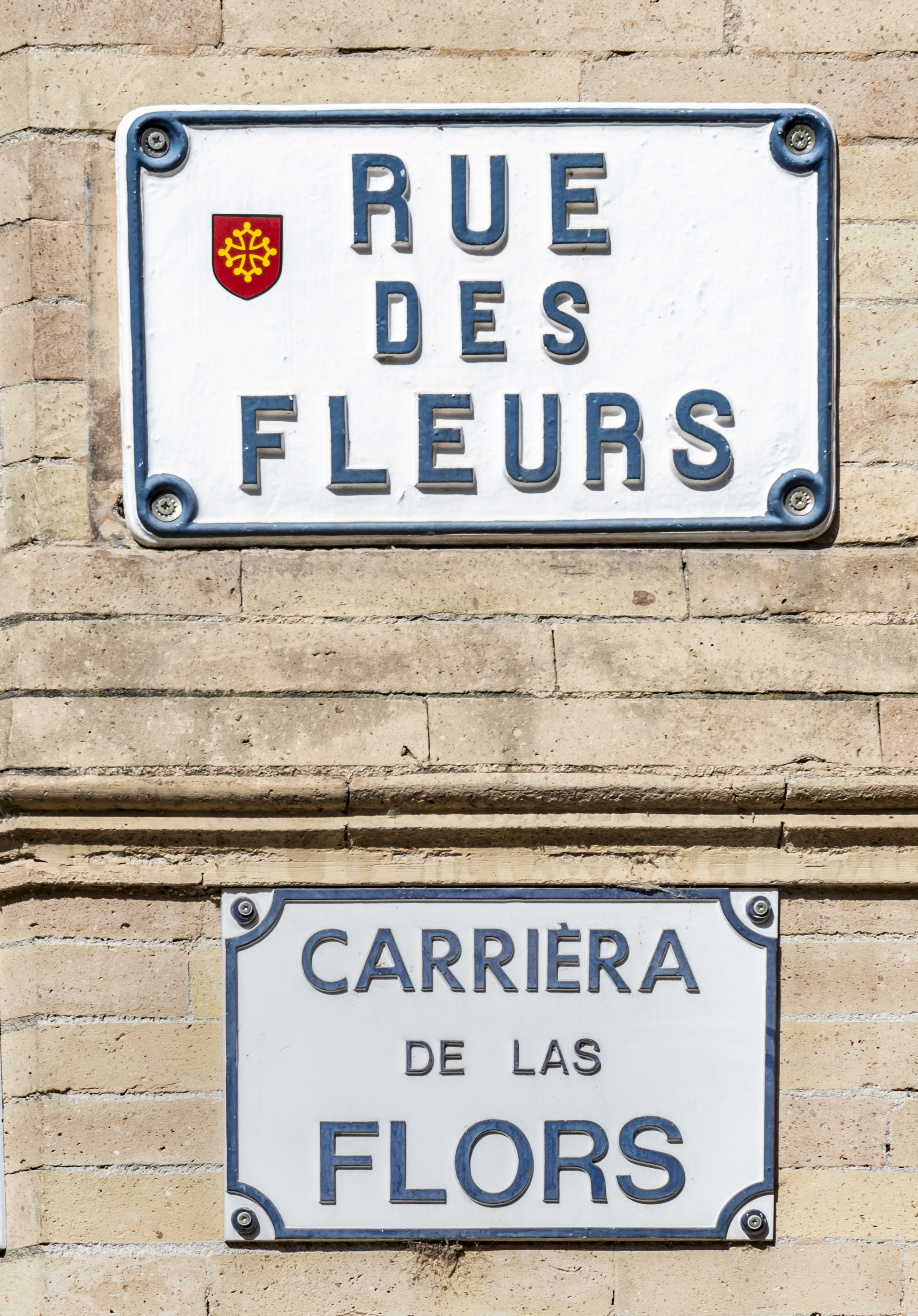 Rue des fleurs, in Toulouse - Street name sign. They have the particularity of being: in French and Occitan.